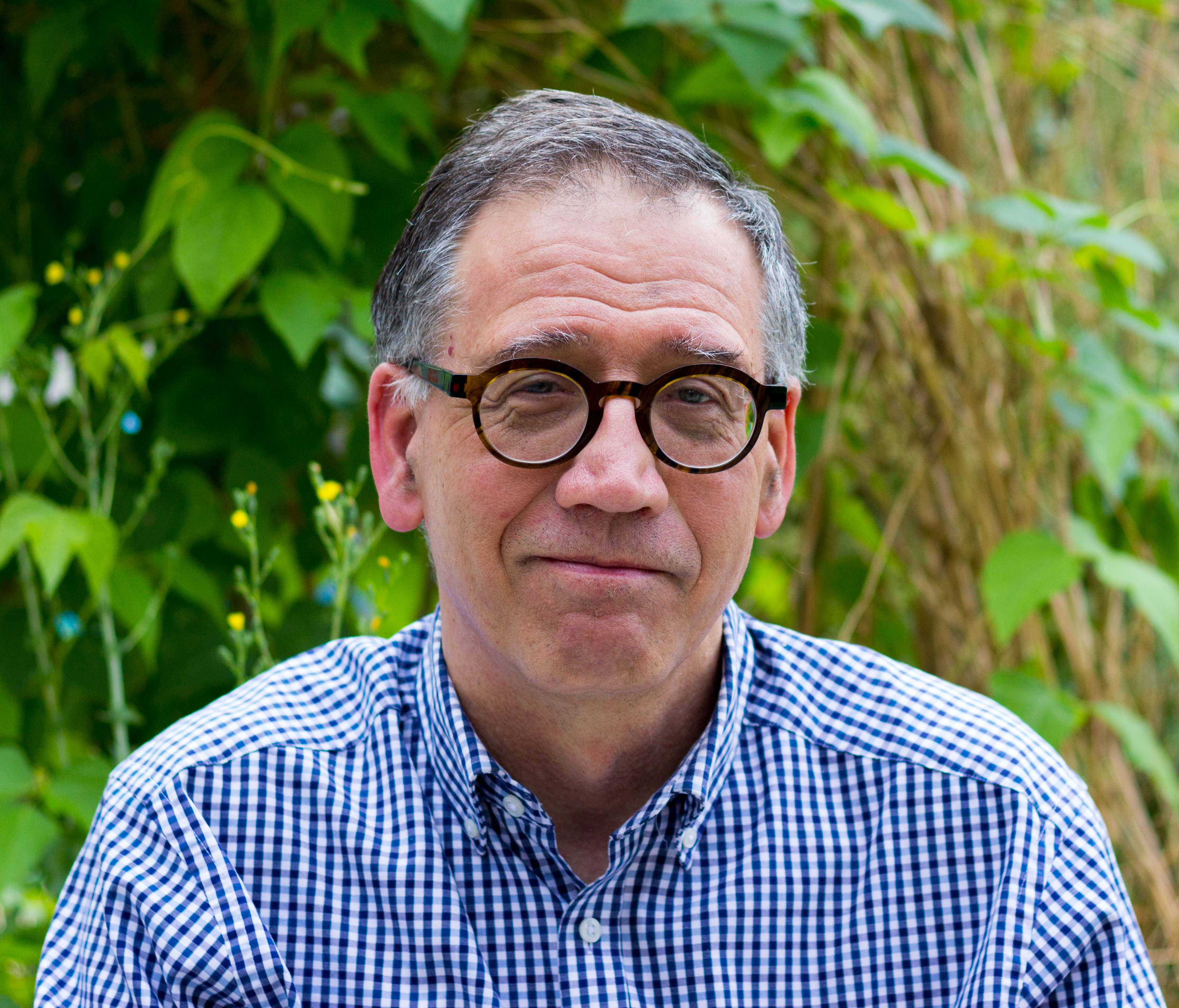 Trevor J. Barnes, professor of Geography at the University of British Columbia, depicted here outside of the Geography Building on September 21st, 2017.